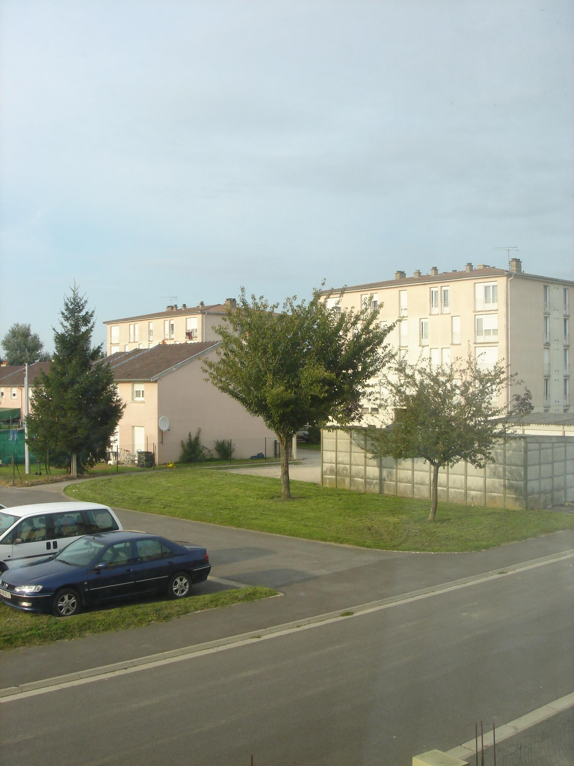 View of Pargny-sur-Saulx, France